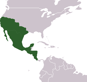 First_Mexican_Empire